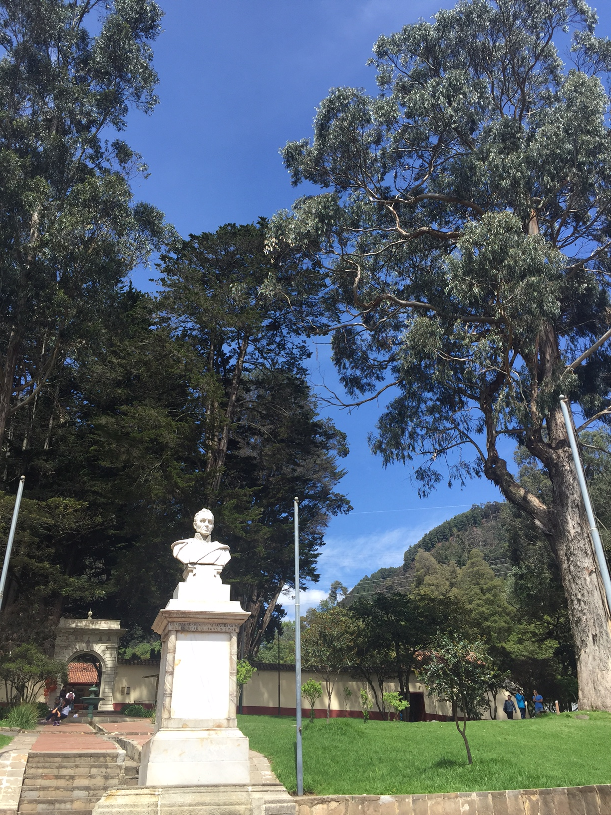 Bust of Simón Bolívar at Quinta de Bolívar.